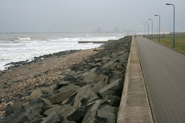 National Cycleway Route 14 National Route 14 runs from South Shields to Barnard Castle via Consett, Durham and here at Seaton Carew where it uses the promenade.